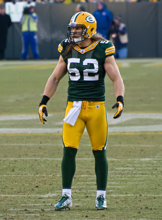 New York Giants vs. Green Bay Packers in the NFC Divisional Playoff Game at Lambeau Field on January 15, 2012. Photo by Mike Morbeck.